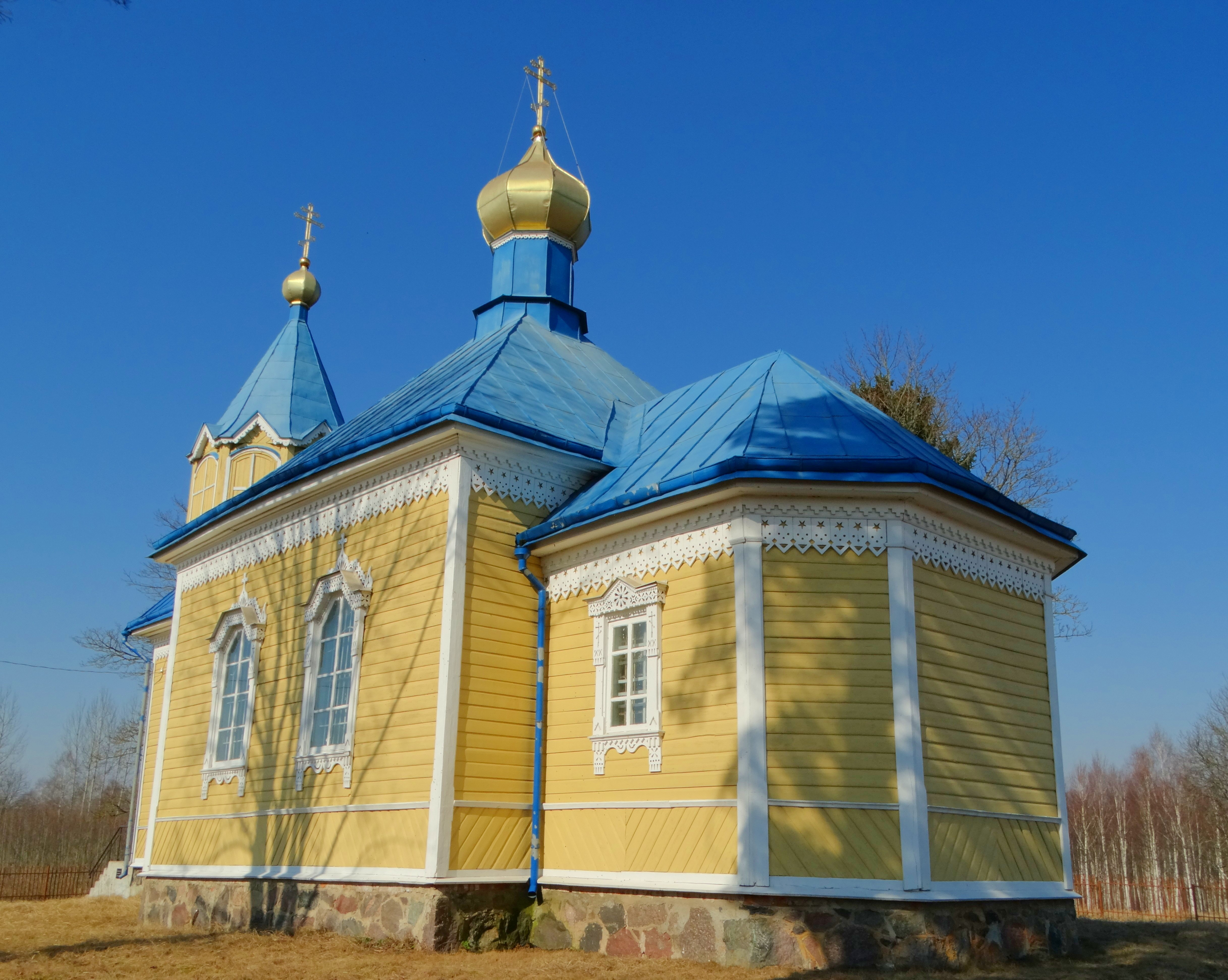 Orthodox church in Kaunatava, Telšiai district, Lithuania